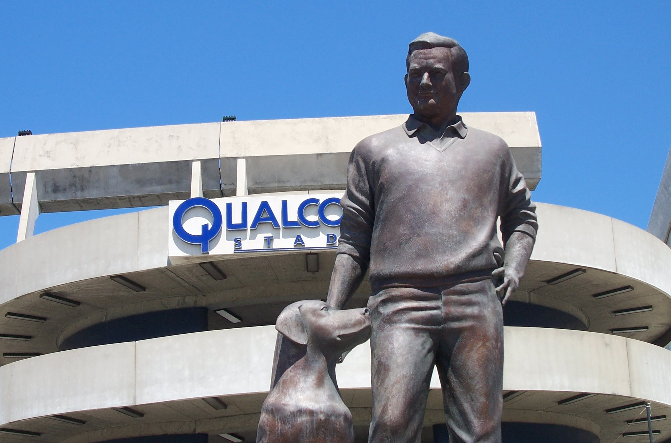 Statue of Jack Murphy and his dog Abe in front of Qualcomm Stadium. The statue was added on January 21, 2003.